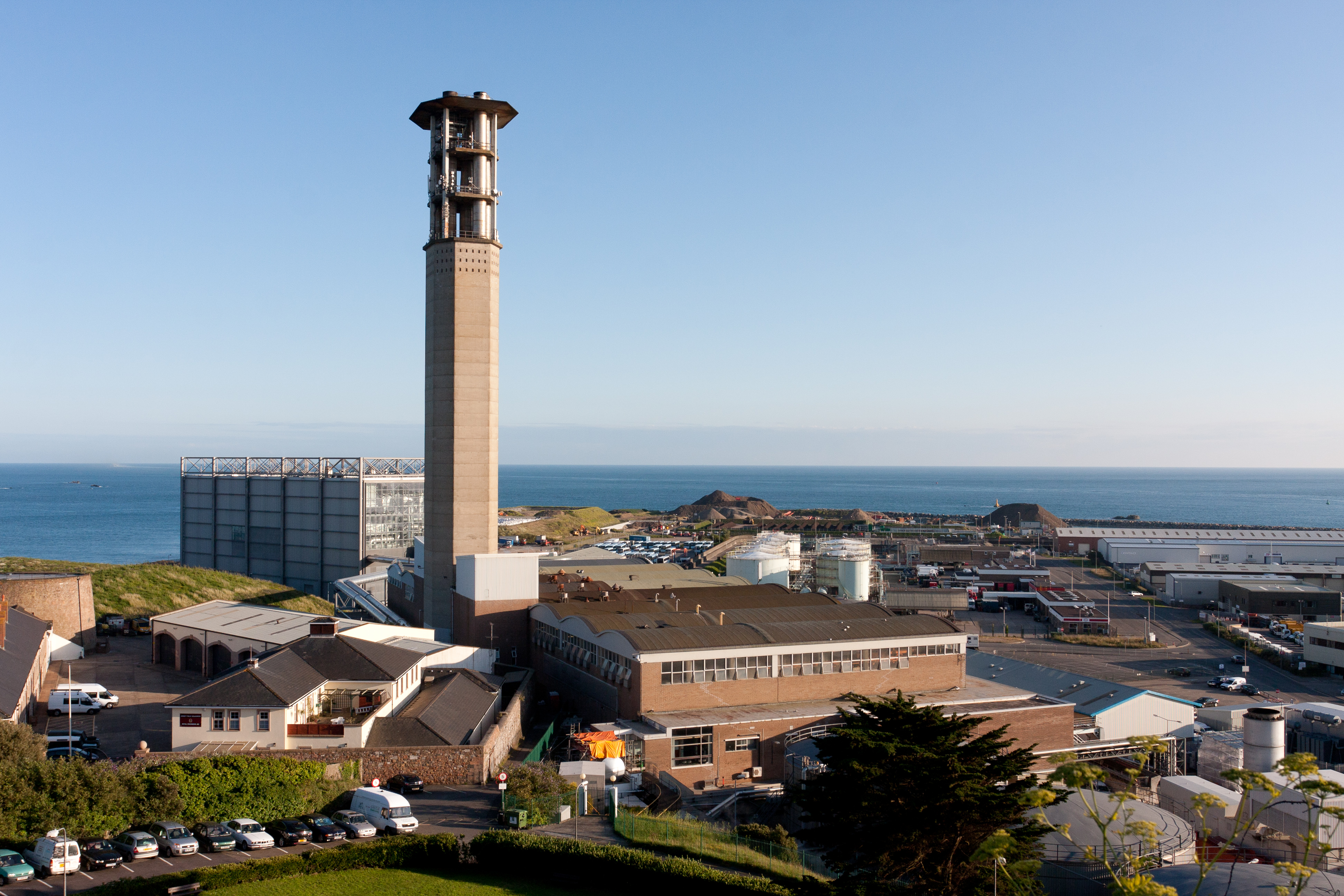 La Collette Power Station and chimney, St. Helier, Jersey.